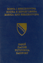 Bosnia and Herzegovina passport,front page